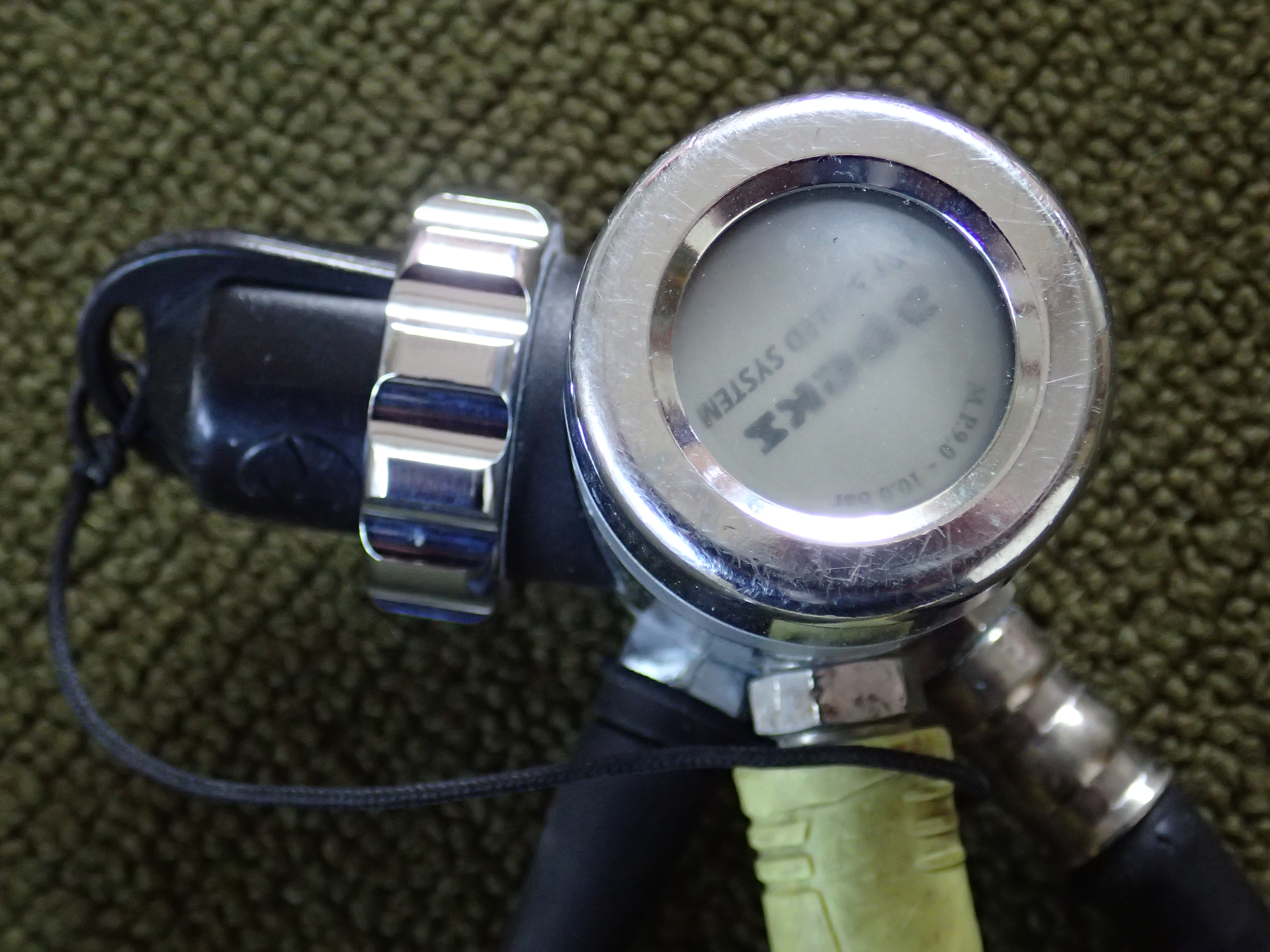 Apeks scuba regulator first stage showing environmental sealing diaphragm